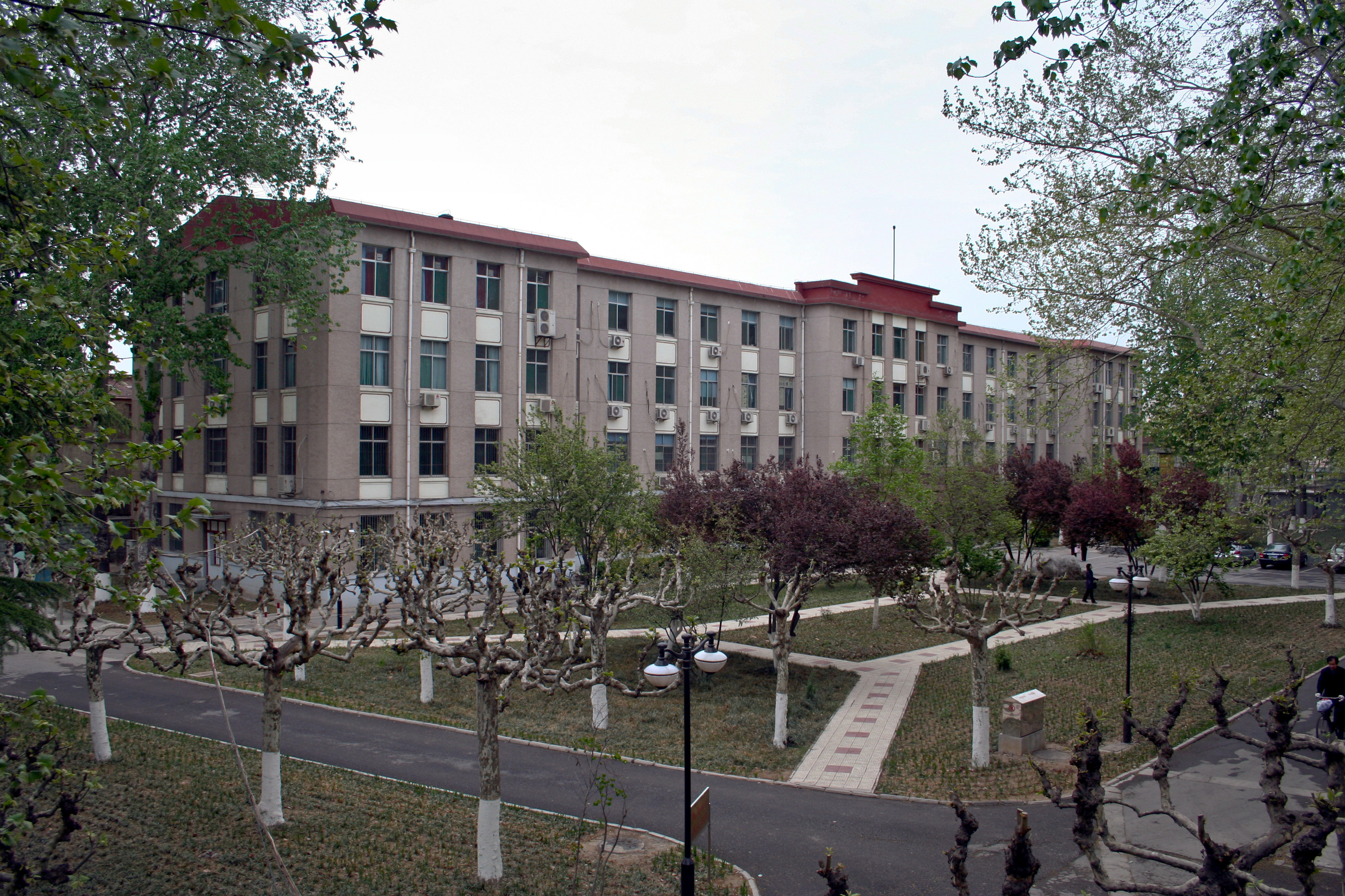 Photograph of the old physics building on the Hongjiaolou campus of Shandong University in Jinan, Shandong, China.